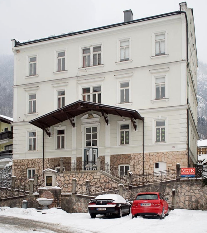 Ehem. Amtshaus der Saline/Museum/Heimathaus